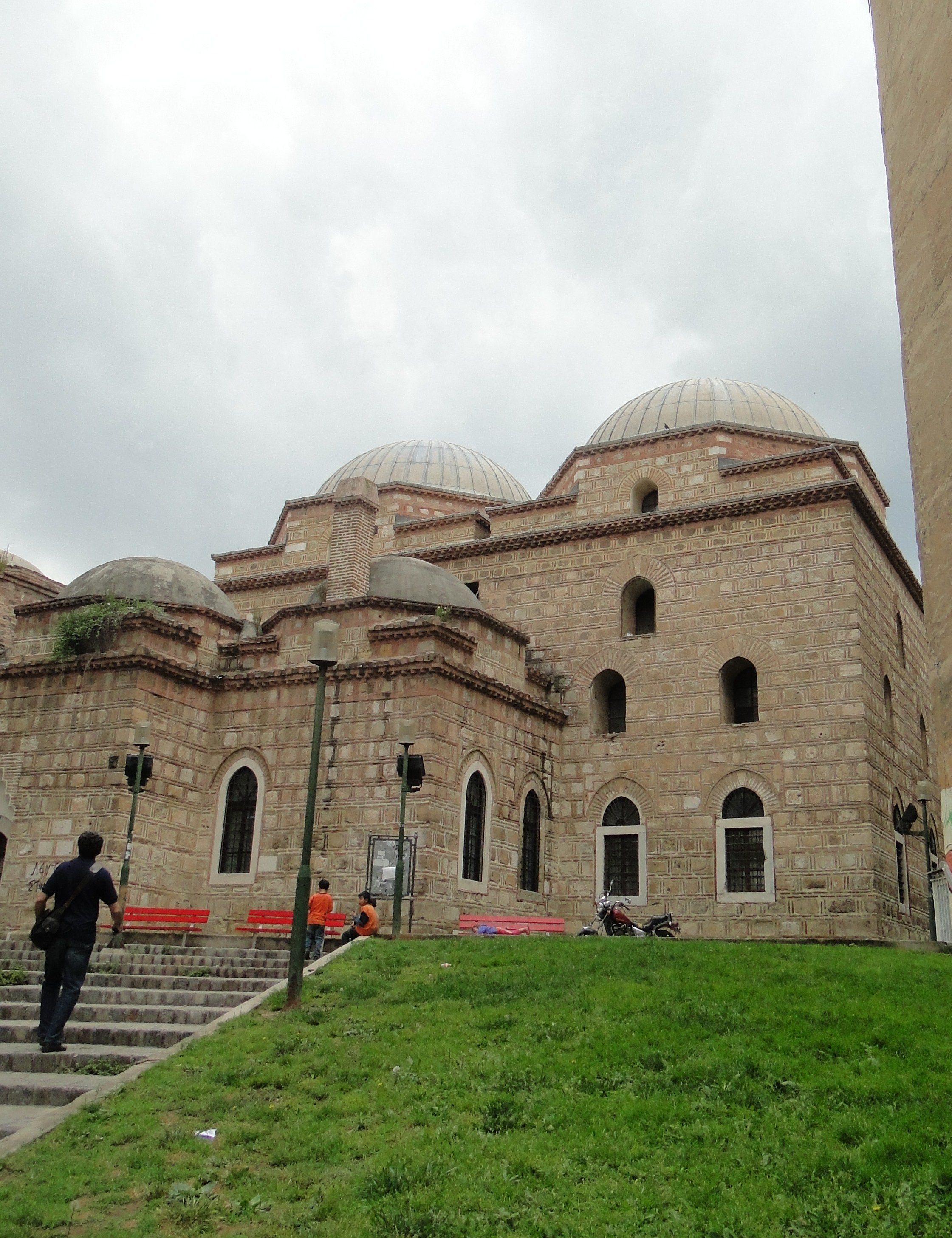 Alatza Imaret, Thessaloniki.